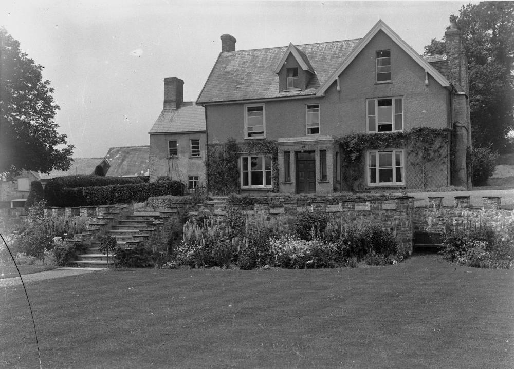 Abstract: Garth House